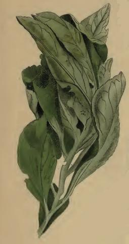 Stainton’s Natural History of the Tineina (1855–1873): Depressaria dictamnella a sprig of Dictamnus albus attacked by larva